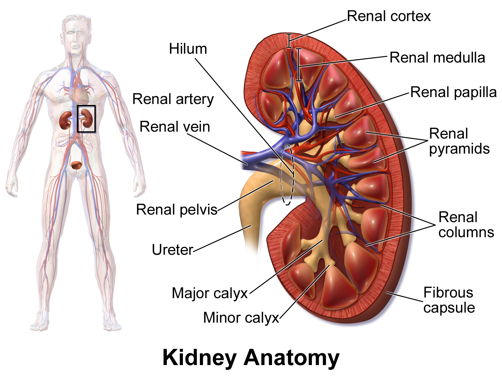 Kidney Anatomy. See a related animation of this medical topic.